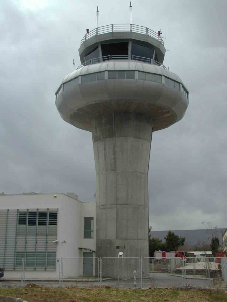 Mostar Airport control tower